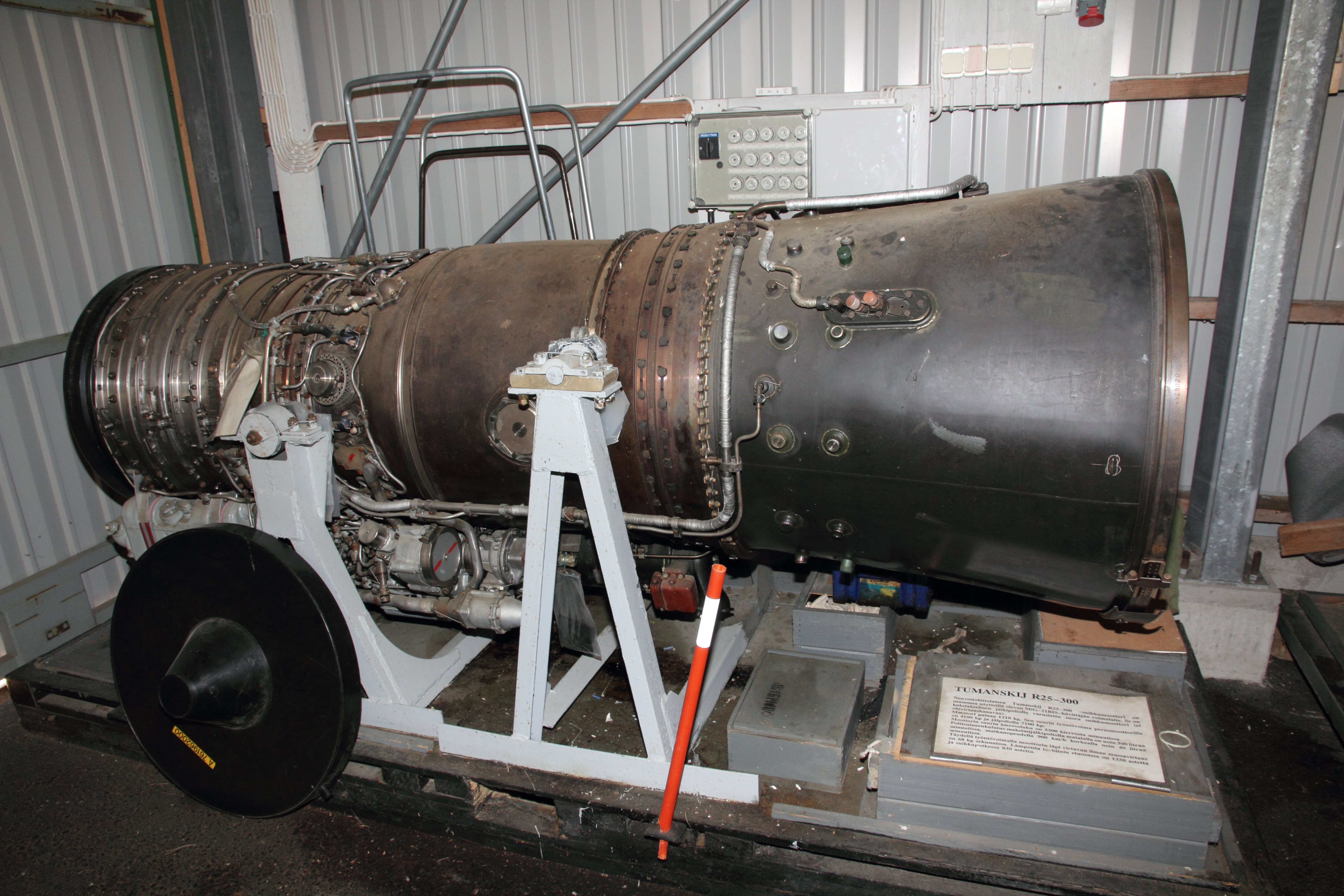 Tumansky R-25-300 jet engine from MiG-21bis fighter (MG-116) photographed in Karhulan ilmailukerho aviation museum.